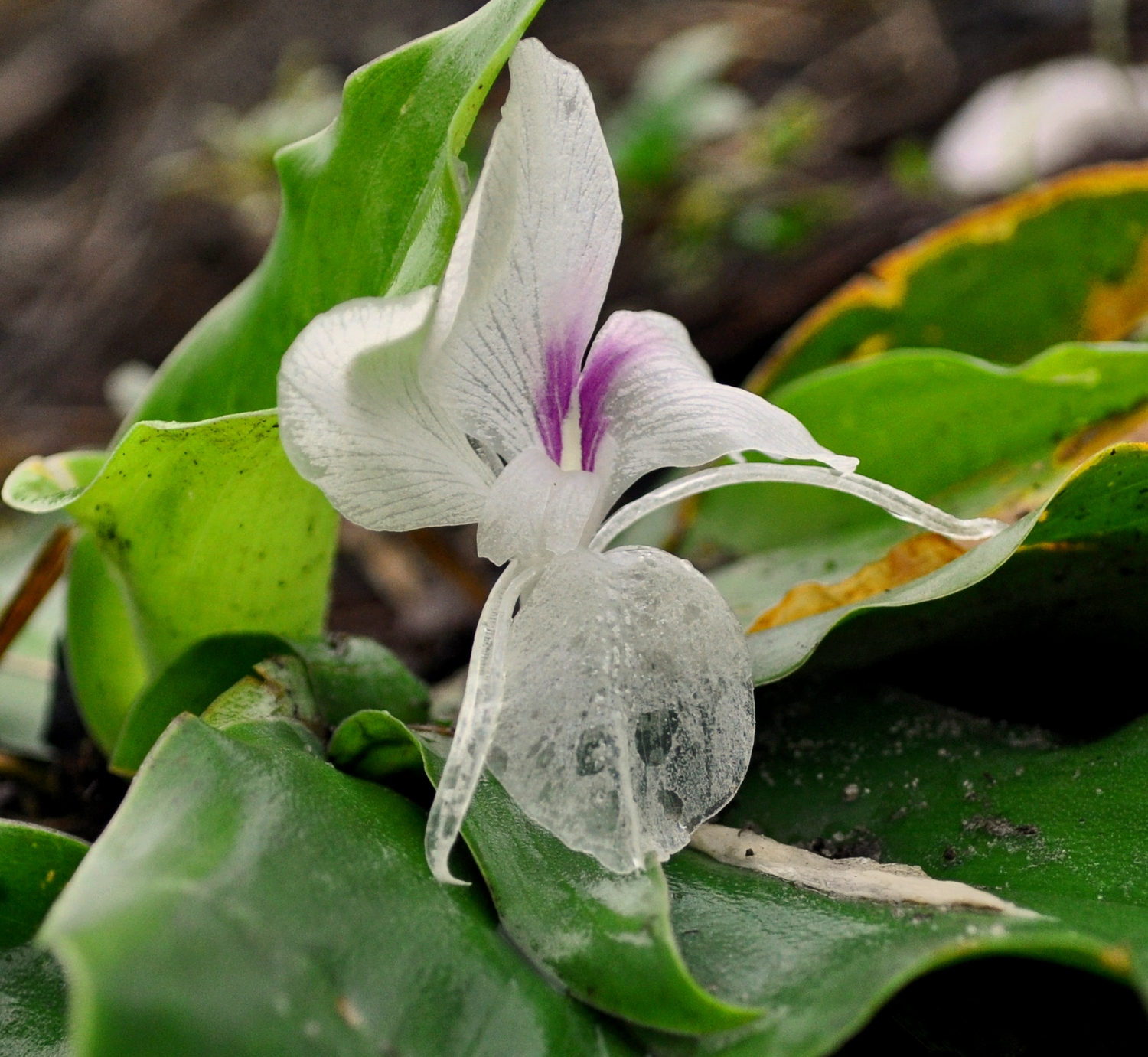 Kencur Kaempferia galanga, flower close-up. Sambas, West Kalimantan, Indonesia.